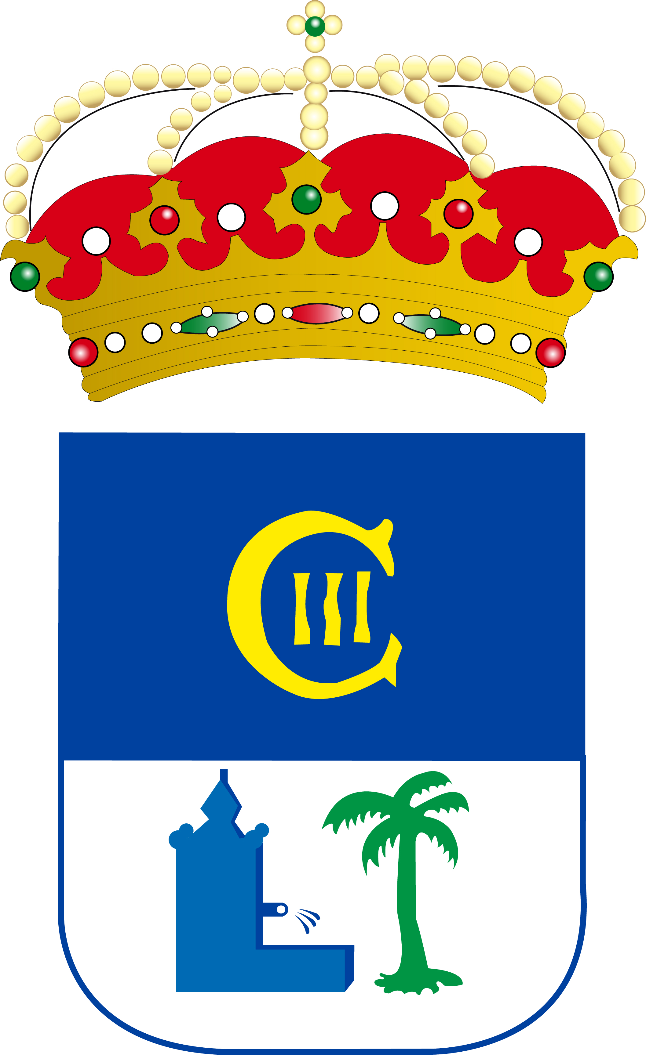 Coat of arms of Fuente Palmera (Spain).